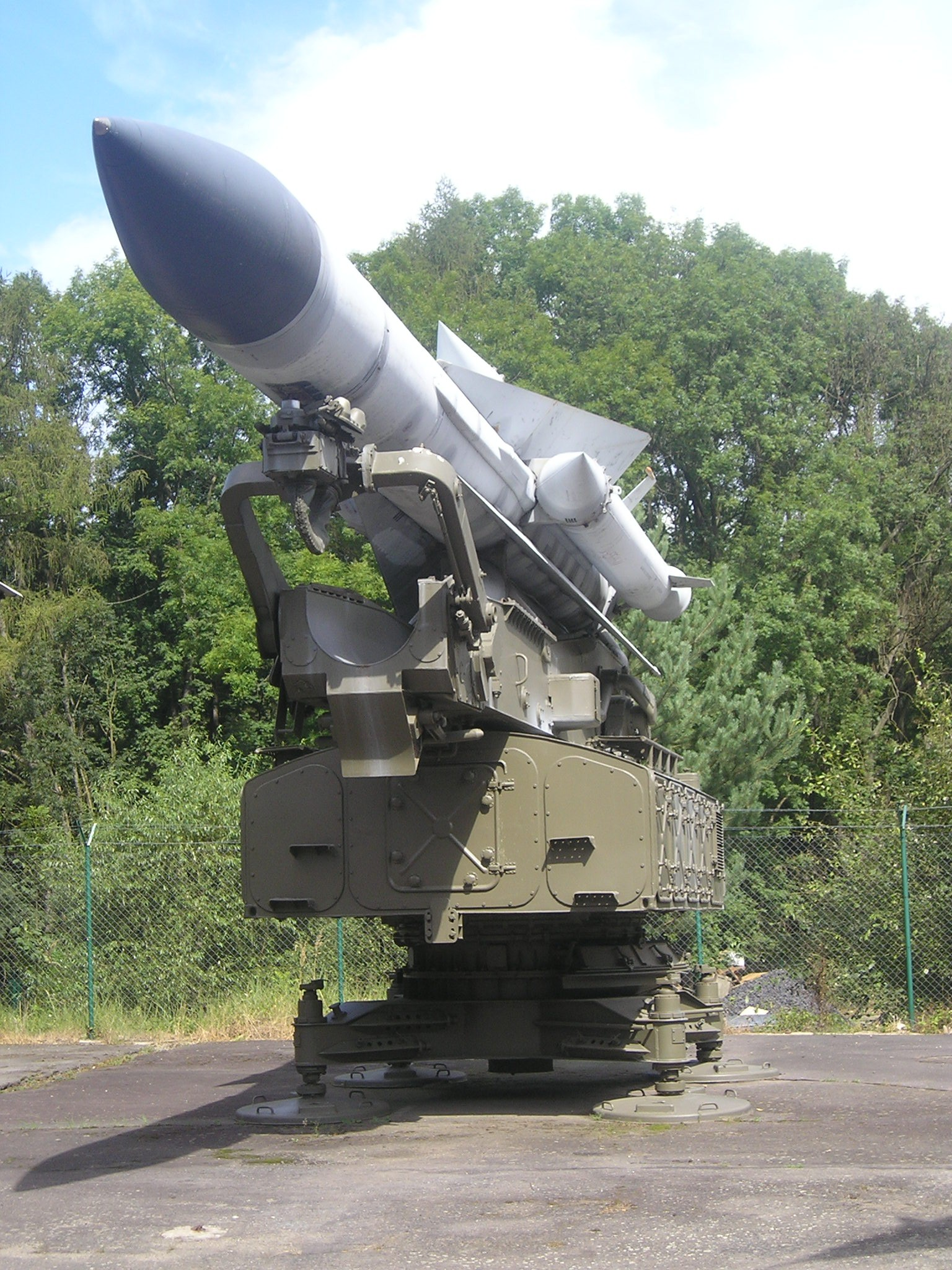 Vojenské muzeum Lešany, protiletadlová střela.